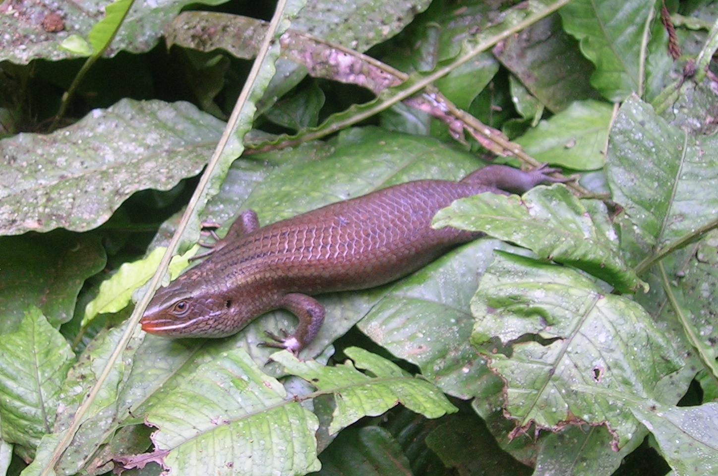 Unidentified Mabuya from North Wayanad, Kerala